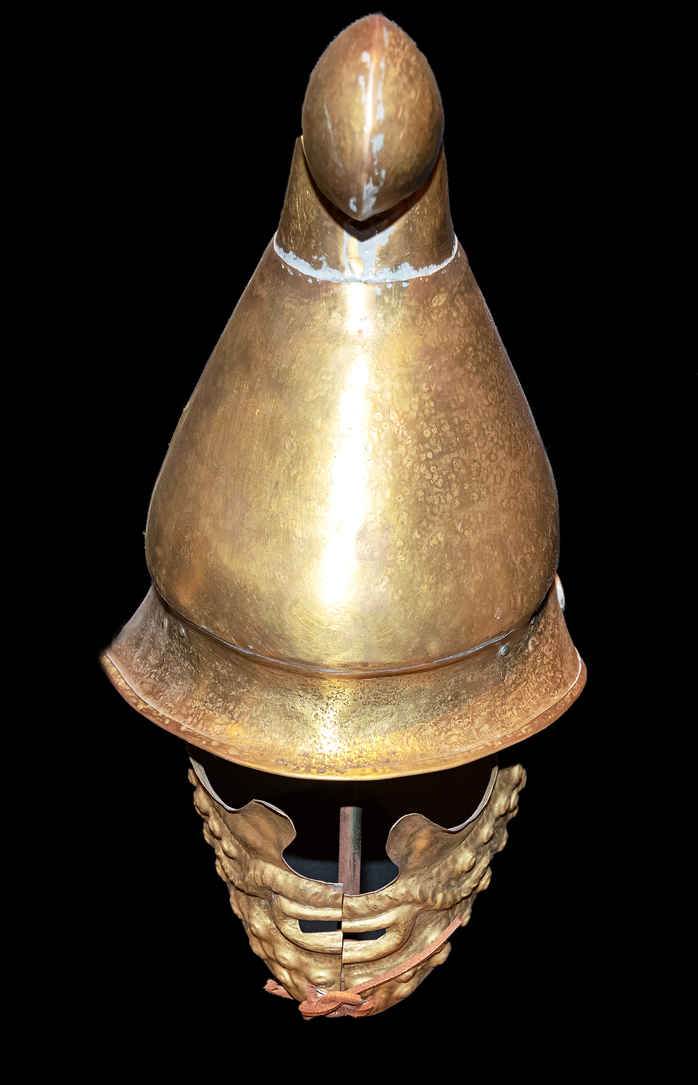 Bronze Phrygian helmet with closed, decorated cheek pieces. The helmet is a modern replica after a model from the 3rd century B.C.